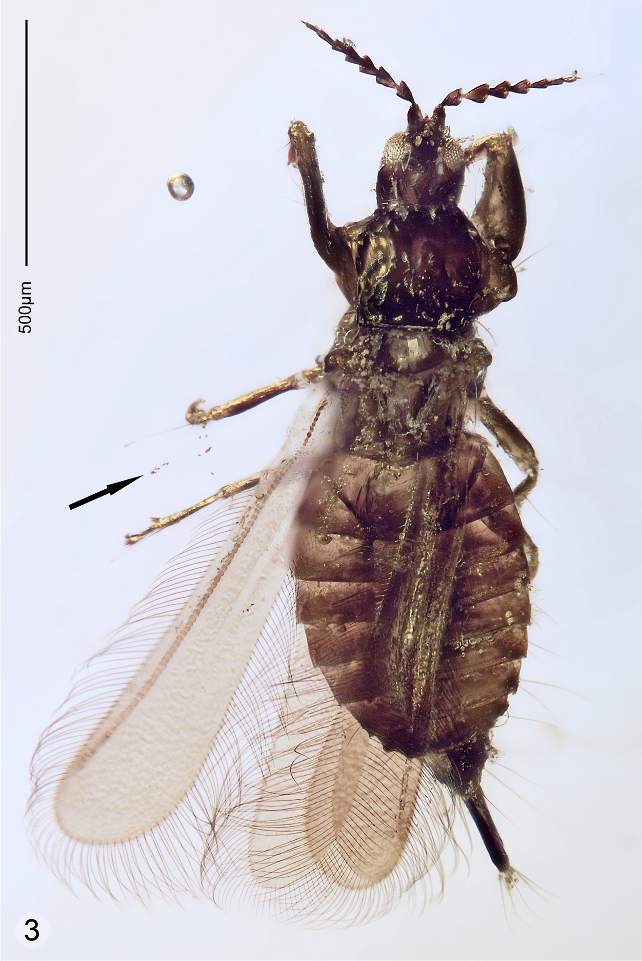 FIGURES 1–4. Rohrthrips spp. (3) R. jiewenae holotype female, dorsal view, indicated: fungal spores.